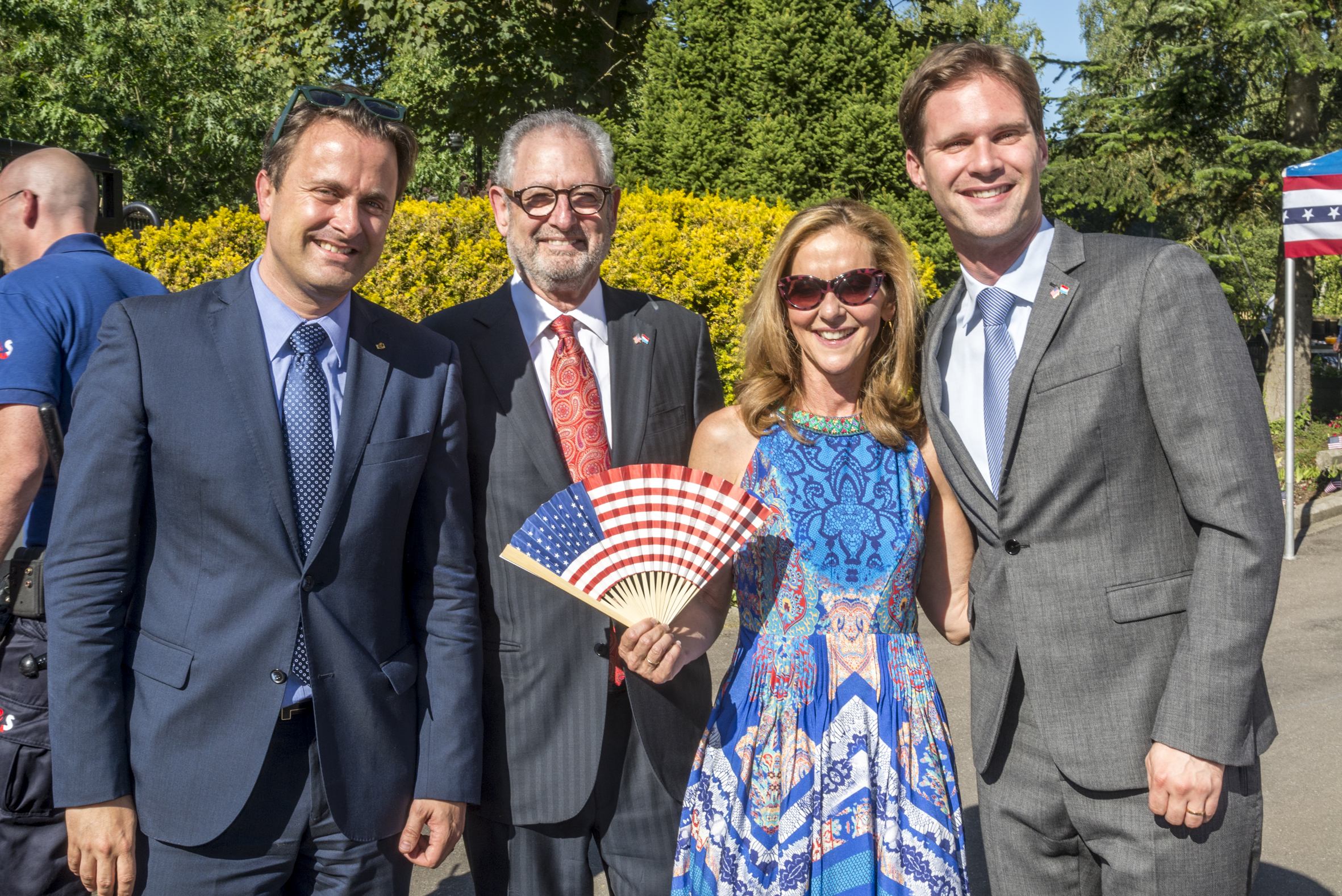 Xavier Bettel and Gauthier Destenay seen here with the American ambassador Robert Mandell and his wife